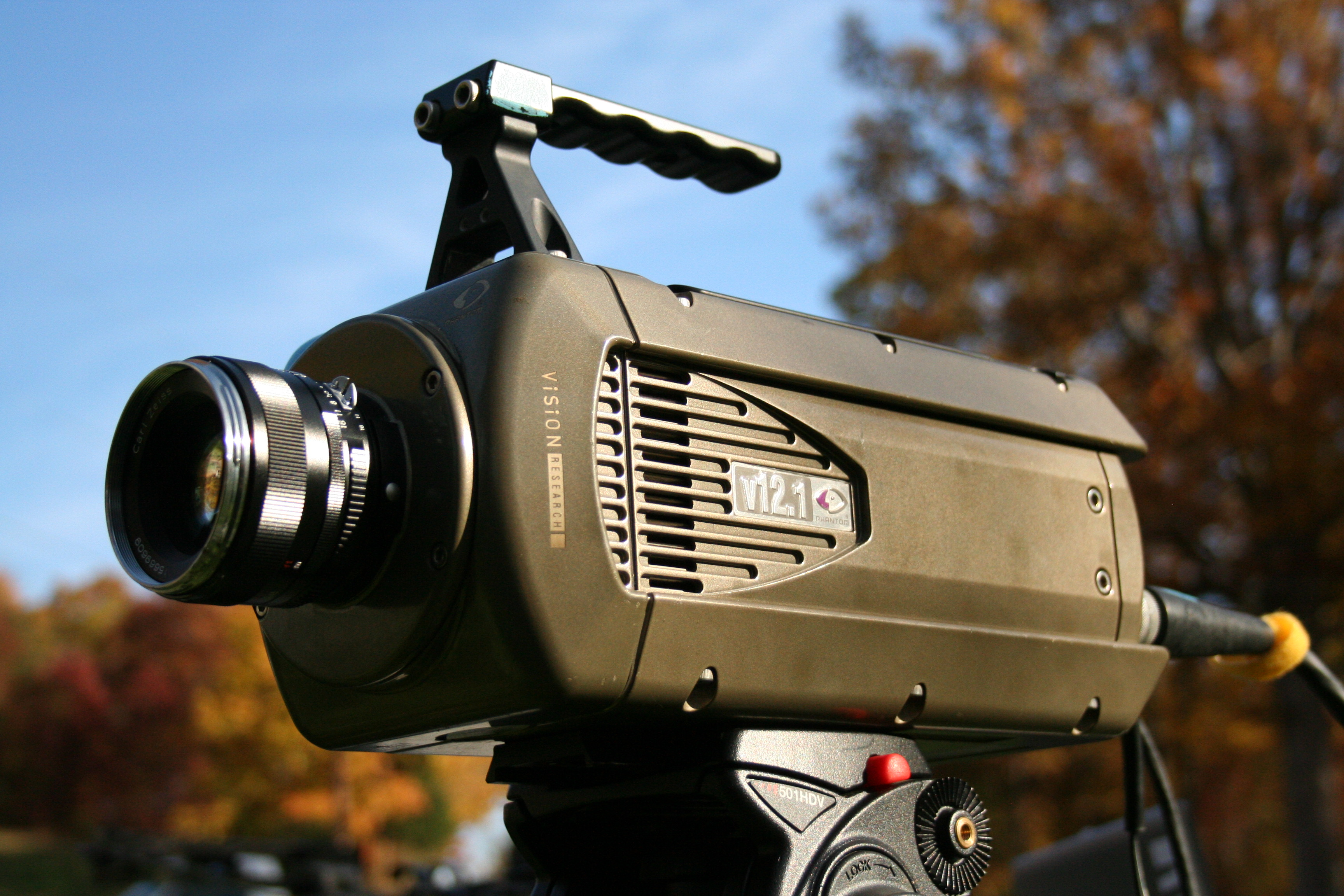 Picture of a Phantom v12.1 camera from Vision Research. Picture taken by Nathan Boor, Aimed Research. Free file sharing must have accompanied credit to author, Nathan Boor of Aimed Research, on the internet page it appears.